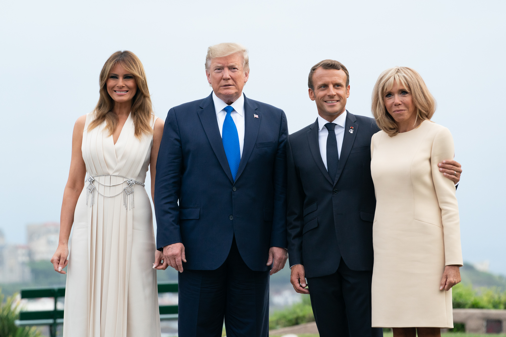 President Donald J. Trump and First Lady Melania Trump arrive to the G7 Leaders’ Working Dinner and are greeted by French President Emmanuel Macron and his wife Mrs. Brigitte Macron Saturday, Aug. 24, 2019, at the Phare de Biarritz in Biarritz, France. (Official White House Photo by Andrea Hanks)